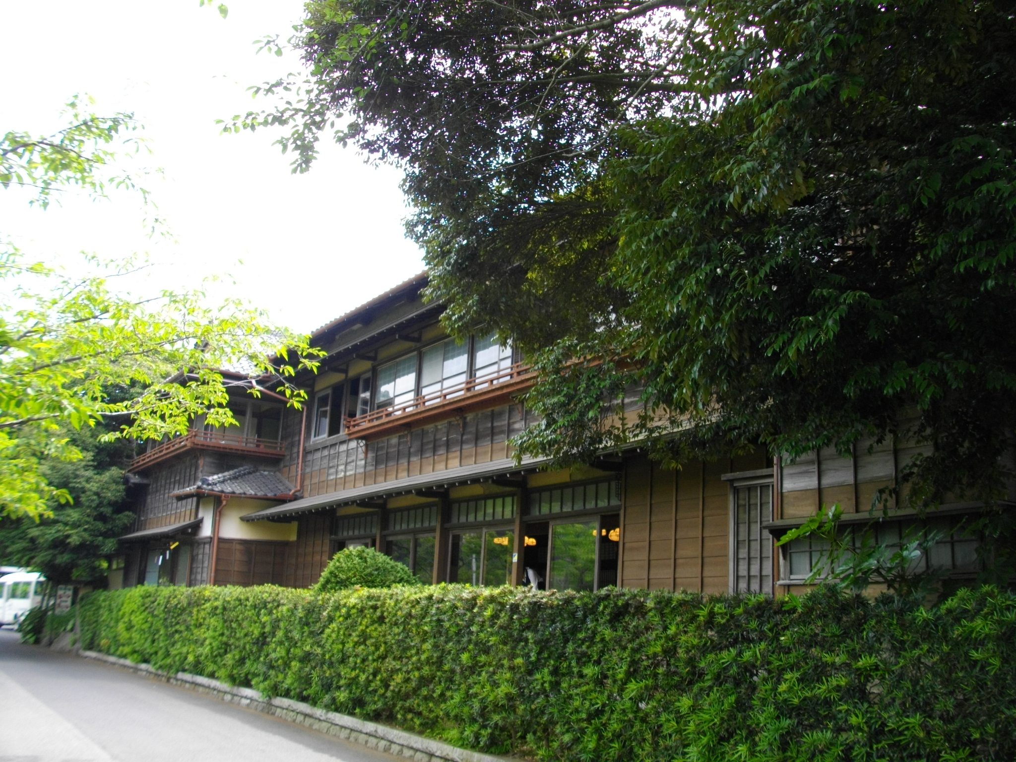 Hakkaku-tei